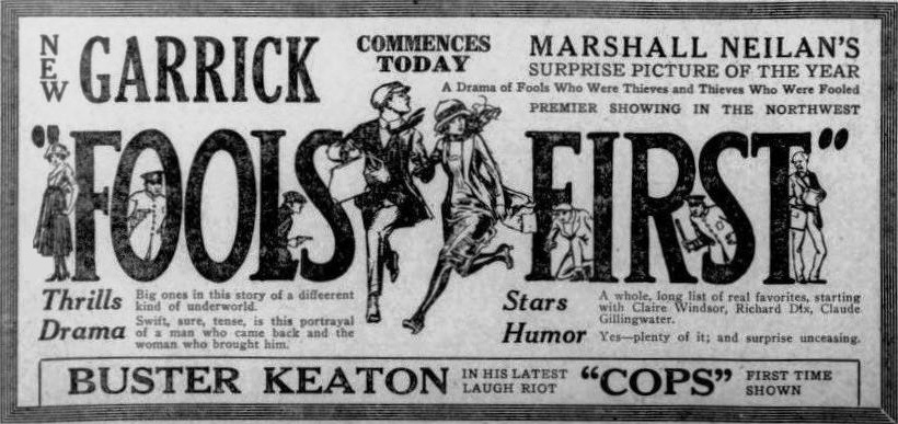 Newspaper advertisement for the American crime drama film Fools First (1922), on page 9 of the June 10, 1922 Duluth Herald.